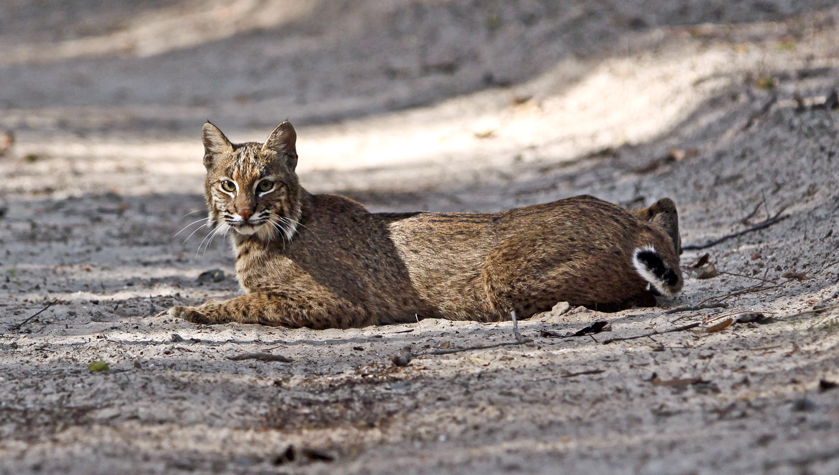 This is a rare shot of the Florida Bobcat taken in the Guana Reserve. Sunday morning offered up one the most elusive and beautiful animals (at least for me) that resides in our maritime forest, the Florida Bobcat. As I was wondering some small trails and marshes of the wildlife preserve, I literately walked up on a large bobcat near the side of a trail staring directly at me. At first I couldn%u2019t believe my eyes, and he too, seemed as startled by my early morning presence. As its tail flickered back and fourth, my first reaction was to get on the ground and shoot as many photos as I could, knowing that he would quickly dart back into the scrub forest, but to my amazement, he was more interested in chasing a few butterflies that fluttered about, so I watched this cat go back and forth stalking these little creatures. In one final moment of defiance, he laid sprawled on the sandy trail and looked right at me, then as quick he was gone. The wild cat%u2019s photos are still being analyzed by GMTNERR%u2019s Jake FitzRoy, whose has through knowledge of our area%u2019s animal species for confirmation as to the sex, etc. Speculation is that it%u2019s a male cat, approximately 25lbs, and about 3ft long, not including his short tail. %u201CEach adult maintains and defends an intrasexually exclusive home range%u201D according to Bobcat Ecology; a research, conservation, and ecology website. Meaning, the male and female cats will not allow others of the same sex within their territories. Male cats have a home range of about 4900 acres, females of 2900 acres, and the GTMNERR has approximately 11500 /- this would only leave a few cats within this territory, making them a rare site indeed. Technical data;Canon 50d, exposure 1/400 f3.5 at 300mm, ISO 250 GPS coordinates:30 2 6 n 81 20 19 w